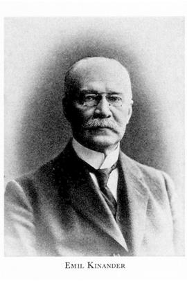 Carl Emil Kinander (1860—1929.